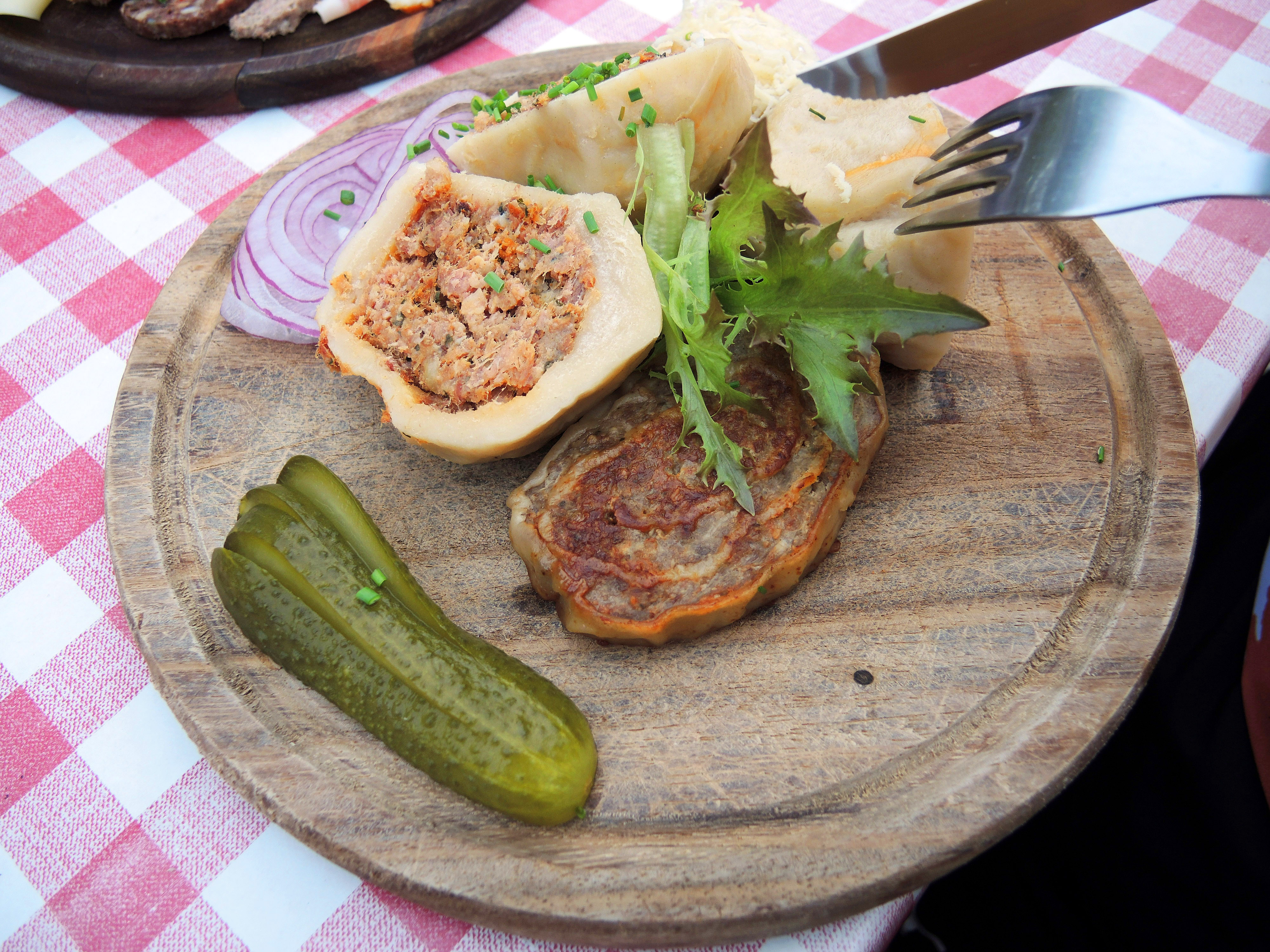 A half of a sliced dumpling, filled with cut meat and a pastry rolled with meat and sliced onions and pickled gherkin. Food served in a "Heuriger" in Austria.